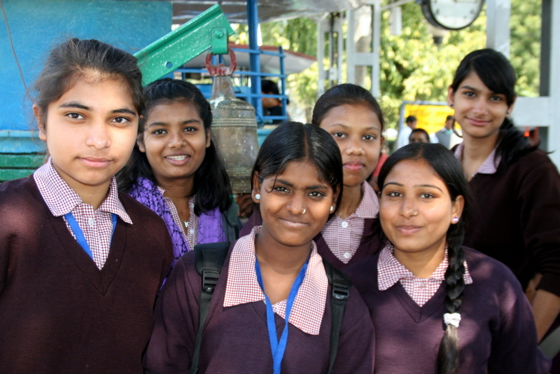 International Day of the Girl Child for 2014 is Empowering Adolescent Girls: Ending the Cycle of Violence